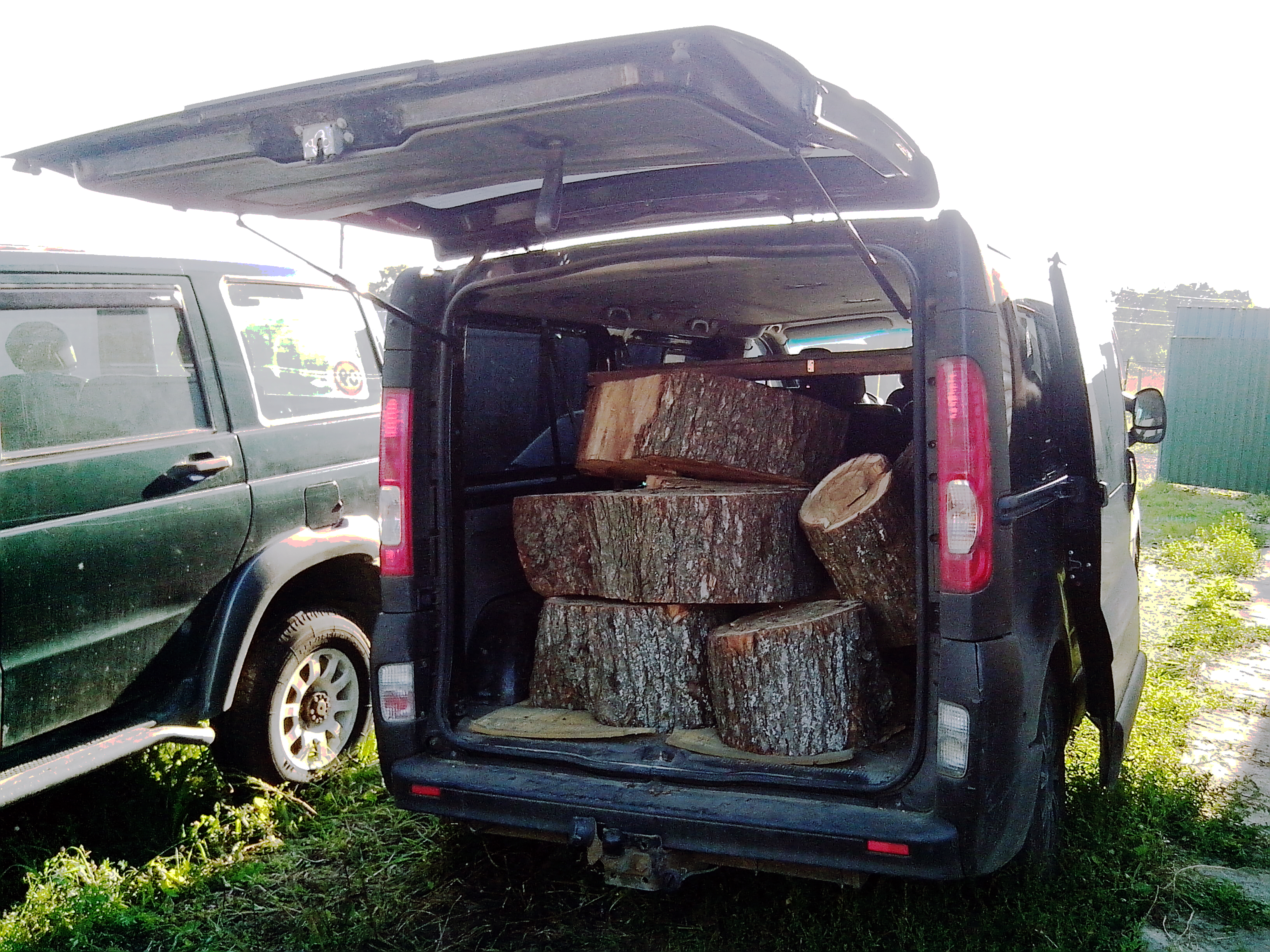 Renault Trafic II Long Passenger Black Edition 2.0 16V 116 (II, Facelift) in Russia